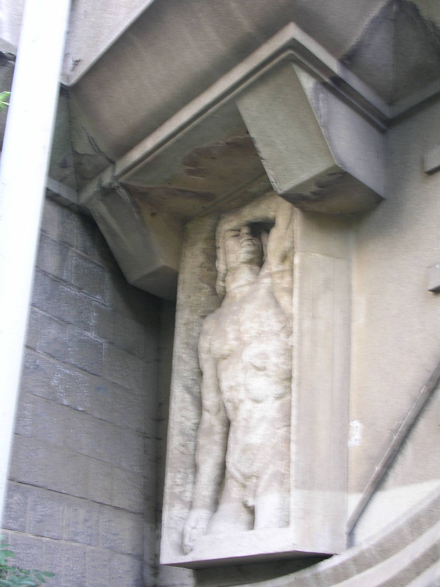 Prague, the Czech Republic. Hlávka's Bridge.